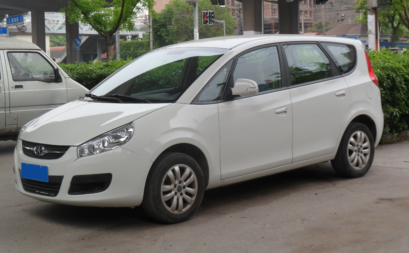 JAC Heyue RS photographed in Shanghai, China.